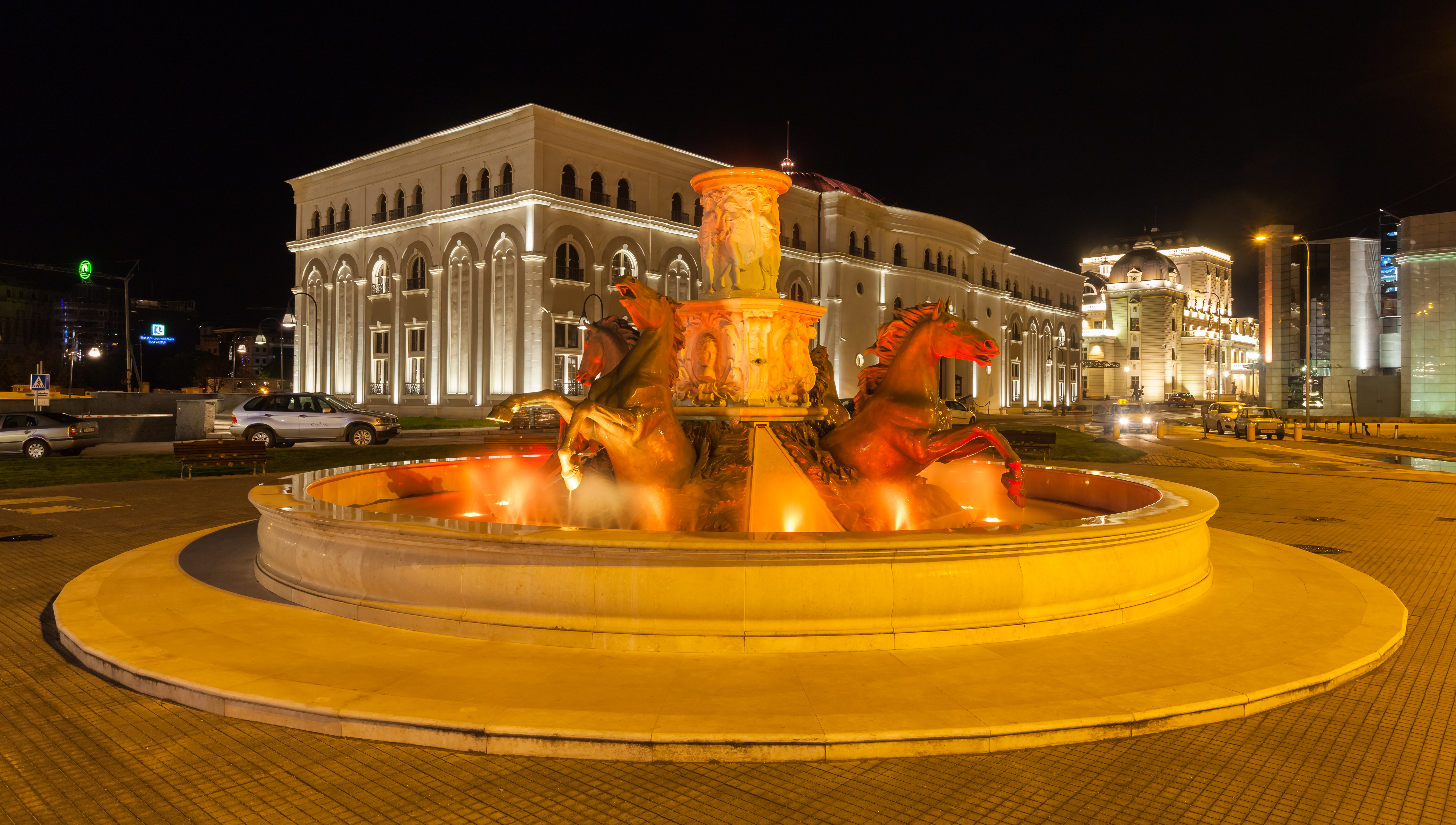 Horses Fountain, Skopje, Republic of Macedonia